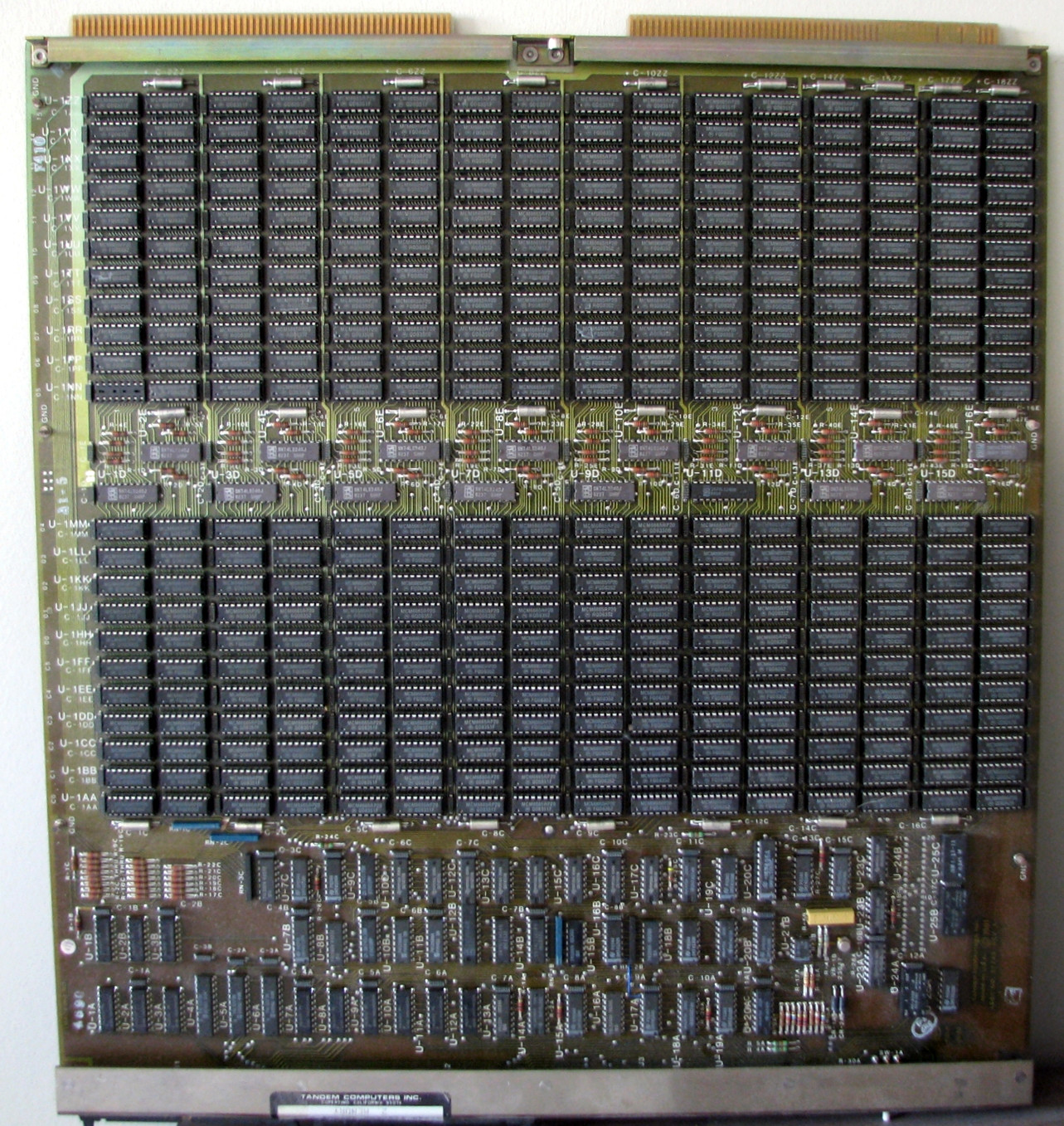 This is the TANDEM T16 memory board.